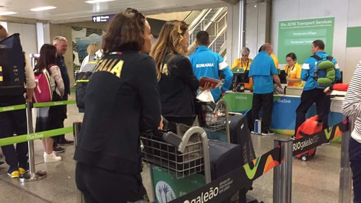 Photo taken in Rio ahead of the Paralympic Games.